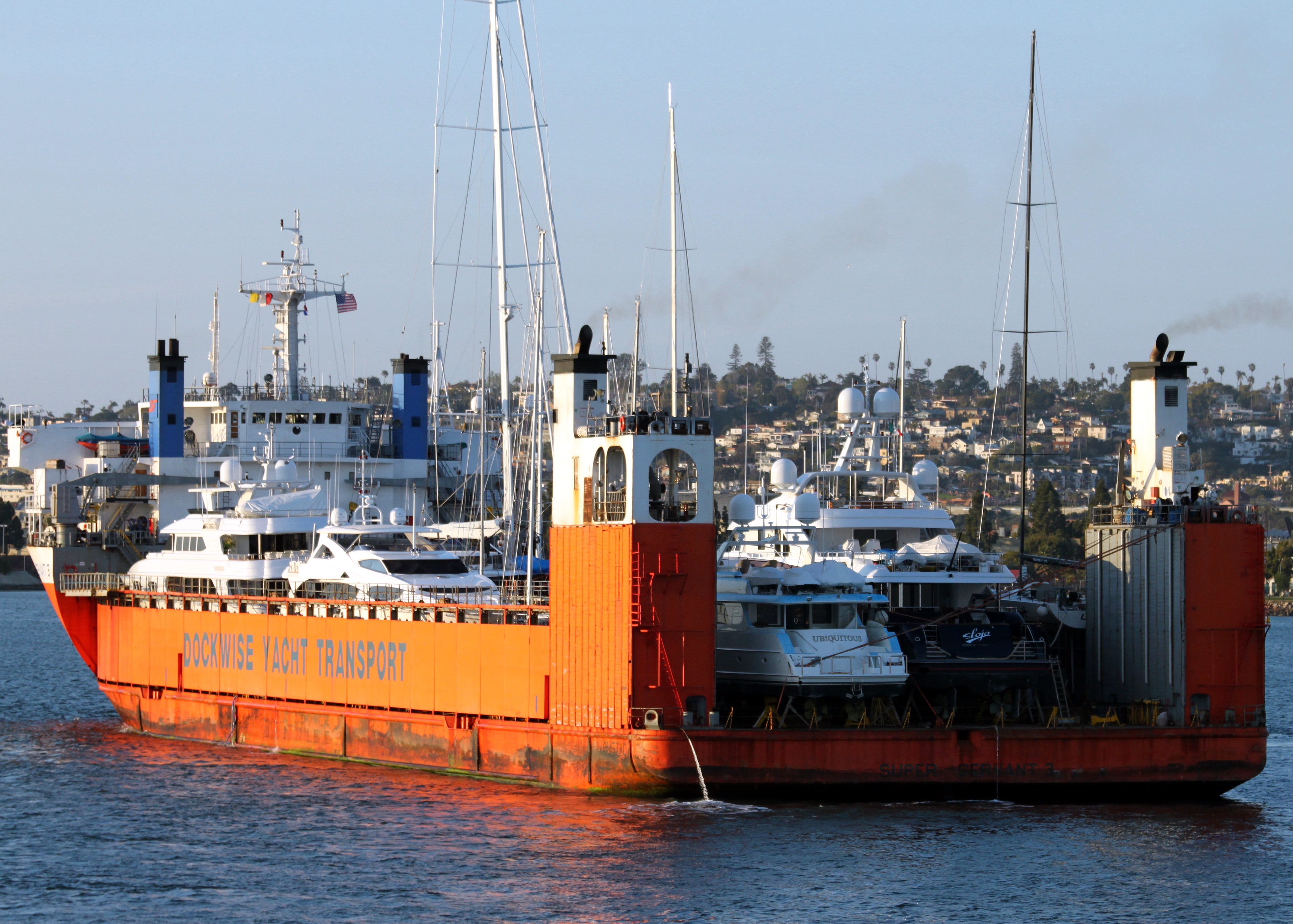 Dockwise Yacht Transport San Diego Harbor, California.